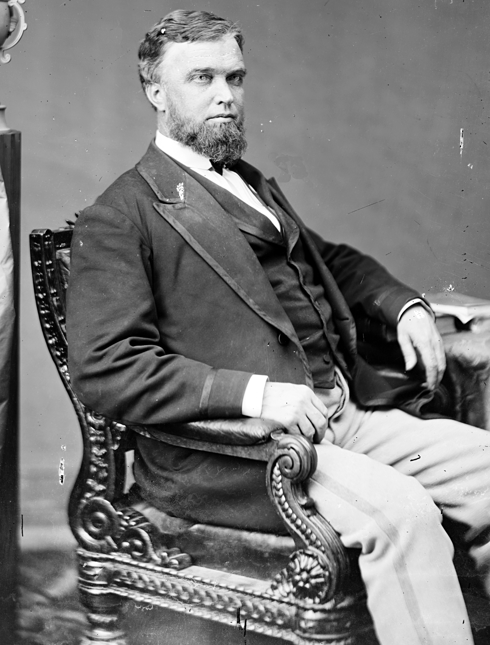 Robert T. Van Horn, US Representative from Missouri